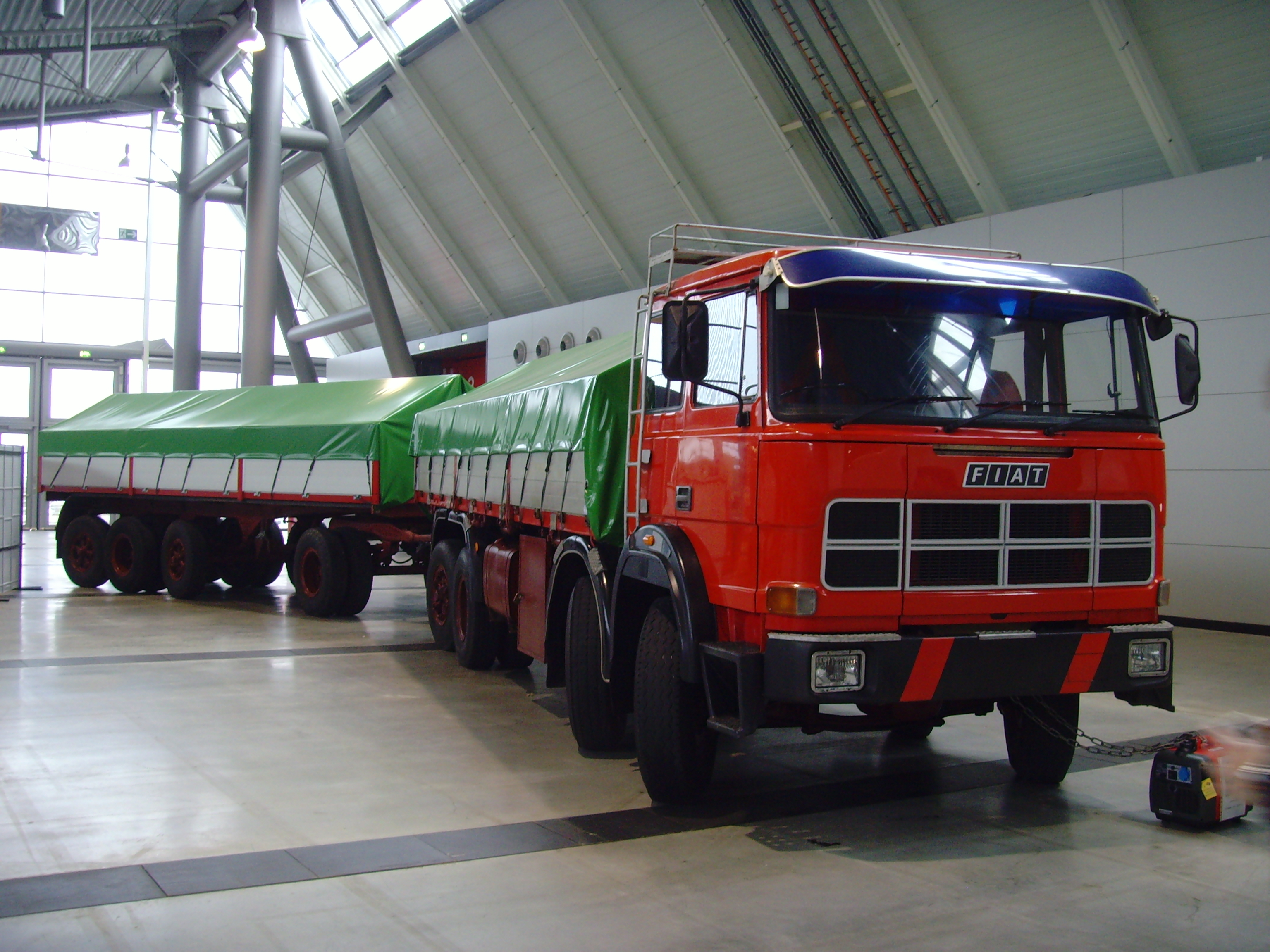 Fiat 691